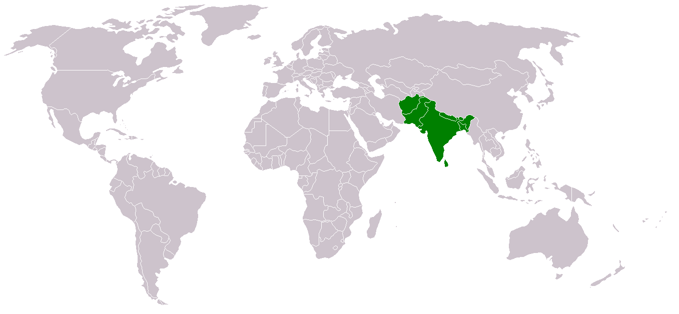 I, En rouge, creator of the image, release it into PD. Edited from Image:BlankMap-World.png.